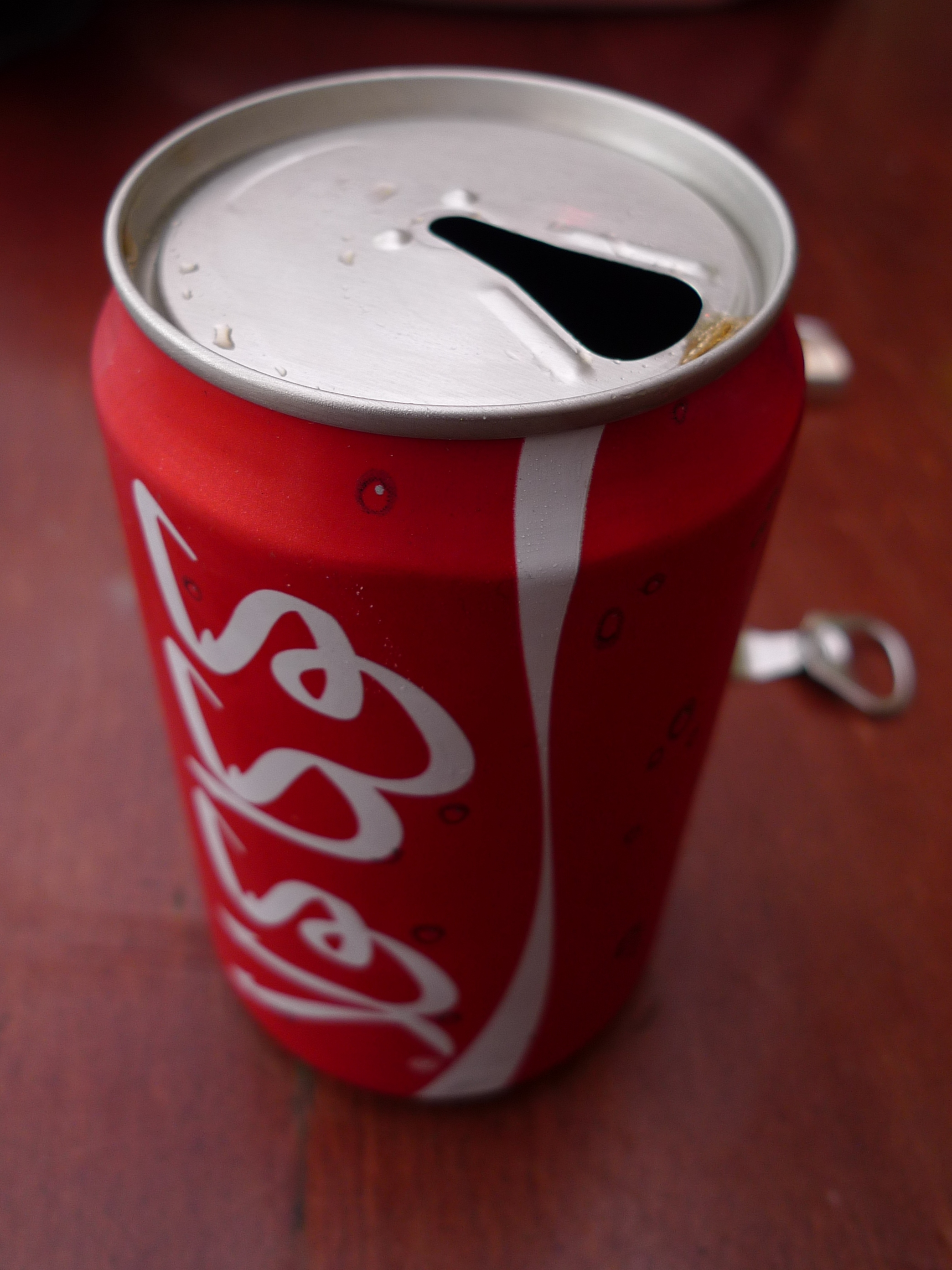 An old-style ringpull can still be seen on Coke cans coming from the Middle East, it seems. This is at Omnia, Coronation Road.